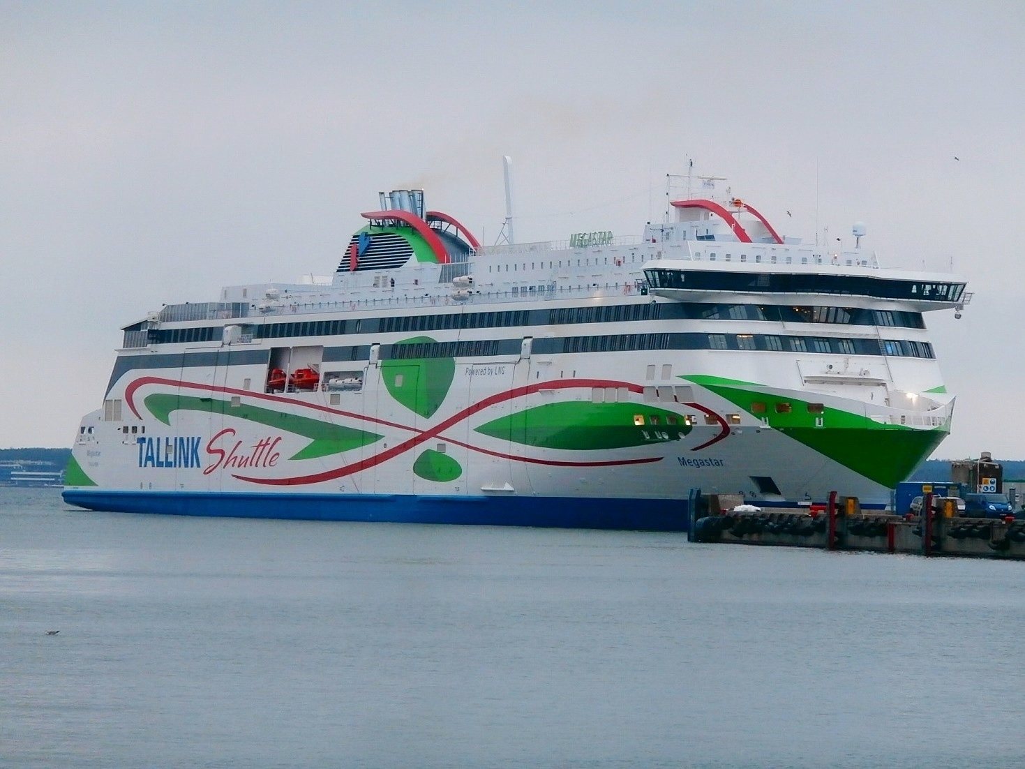 Megastar departing Tallinn 1 February 2017